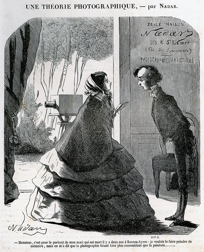 Petit journal pour rire, N° 20 - chief editor : Nadar 1856 - director : Charles Philipon “Sir, it's for the portrait of my husband who died two years ago in Buenos Aires. I wanted it painted from memory, but I was told that photography could provide a better likeness . . .”